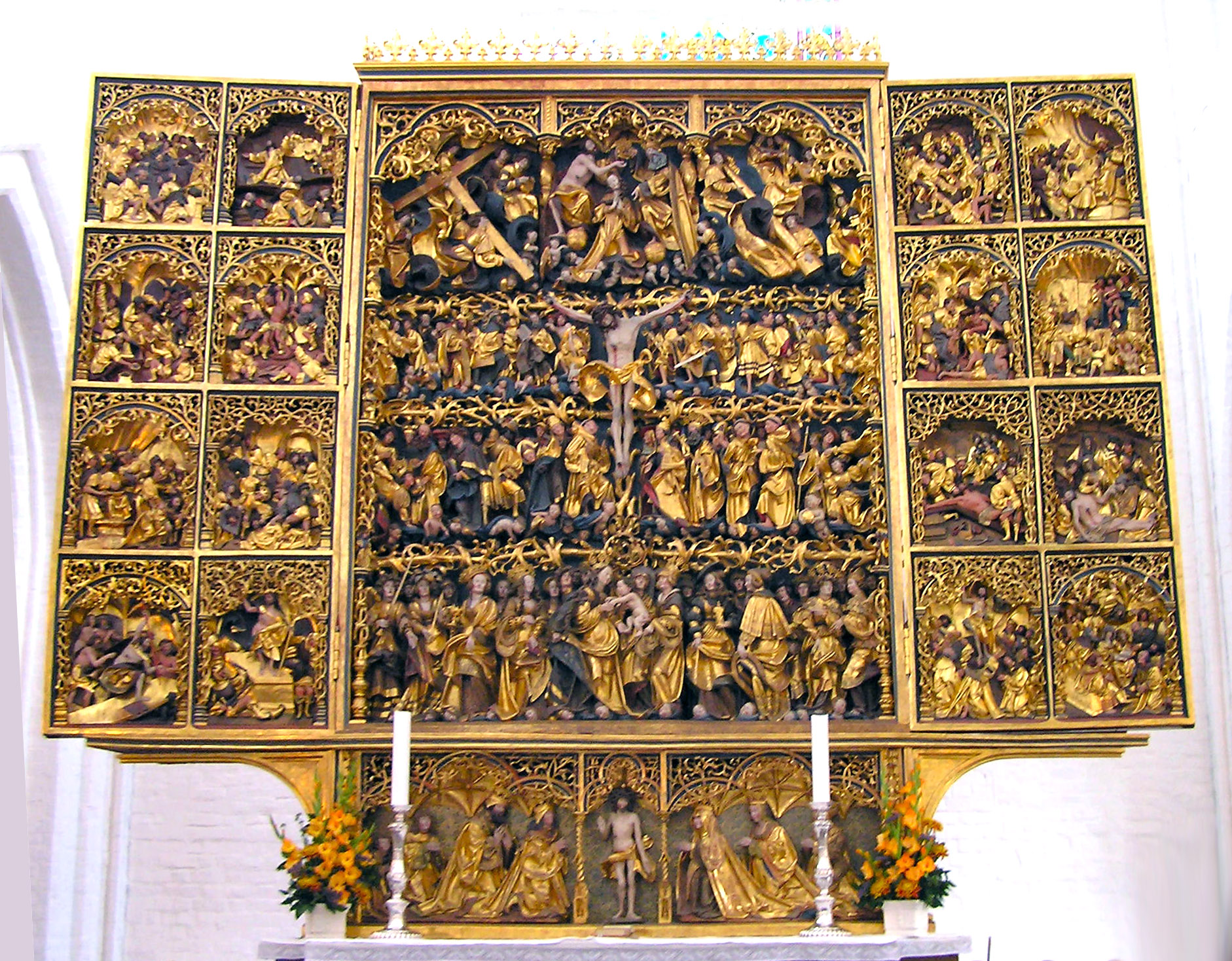 Odense Cathedral, Altar by Claus Berg